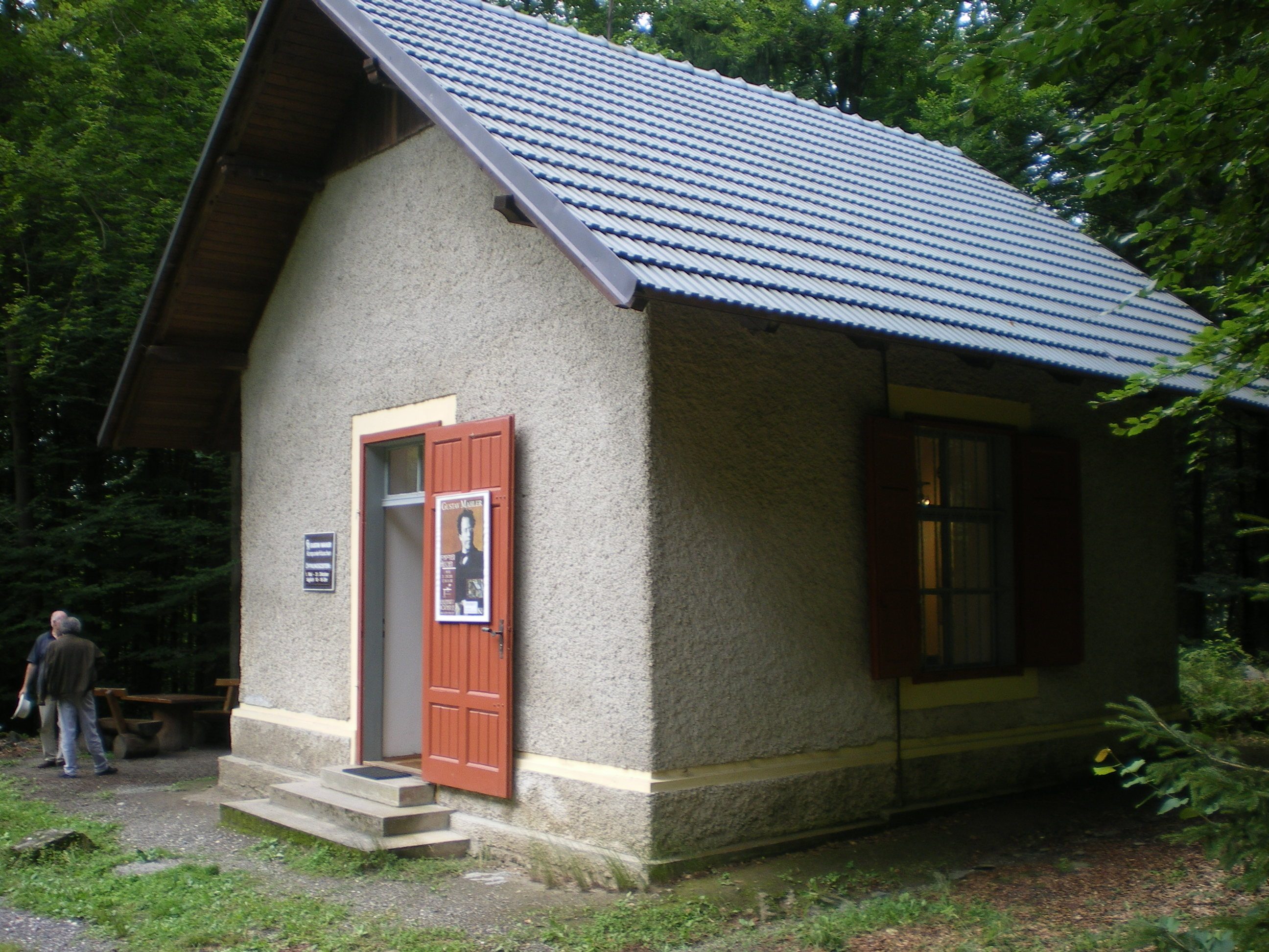 Mahler's Komponierhäuschen (composition hut) at Maiernigg (near Klagenfurt) on the shores of the Wörthersee in Carinthia.